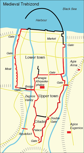 Fortification plan of (central) medieval Trebizond (modern Trabzon, Turkey). Current remains in red